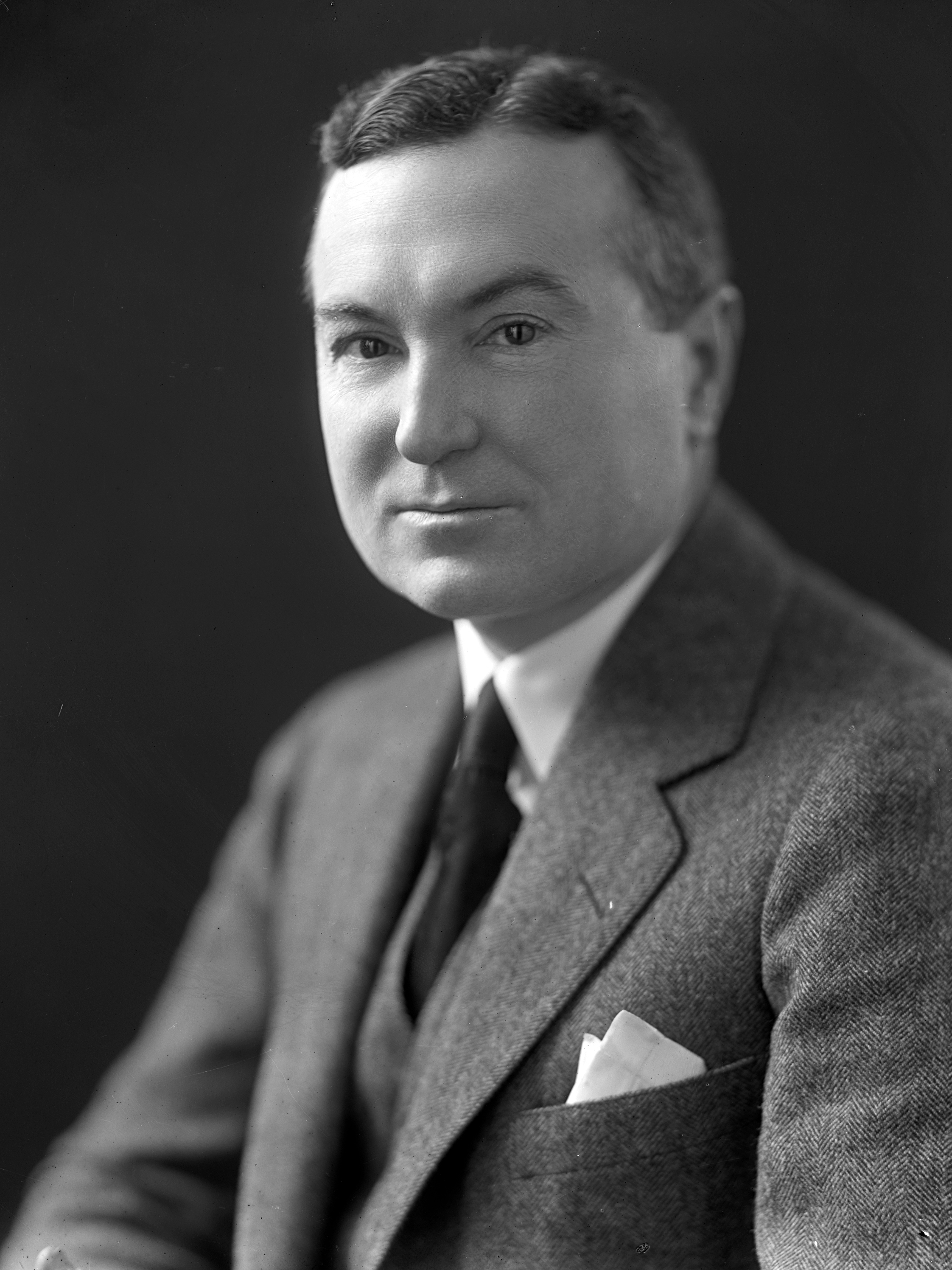 James McDevitt Magee, US Representative from Pennsylvania